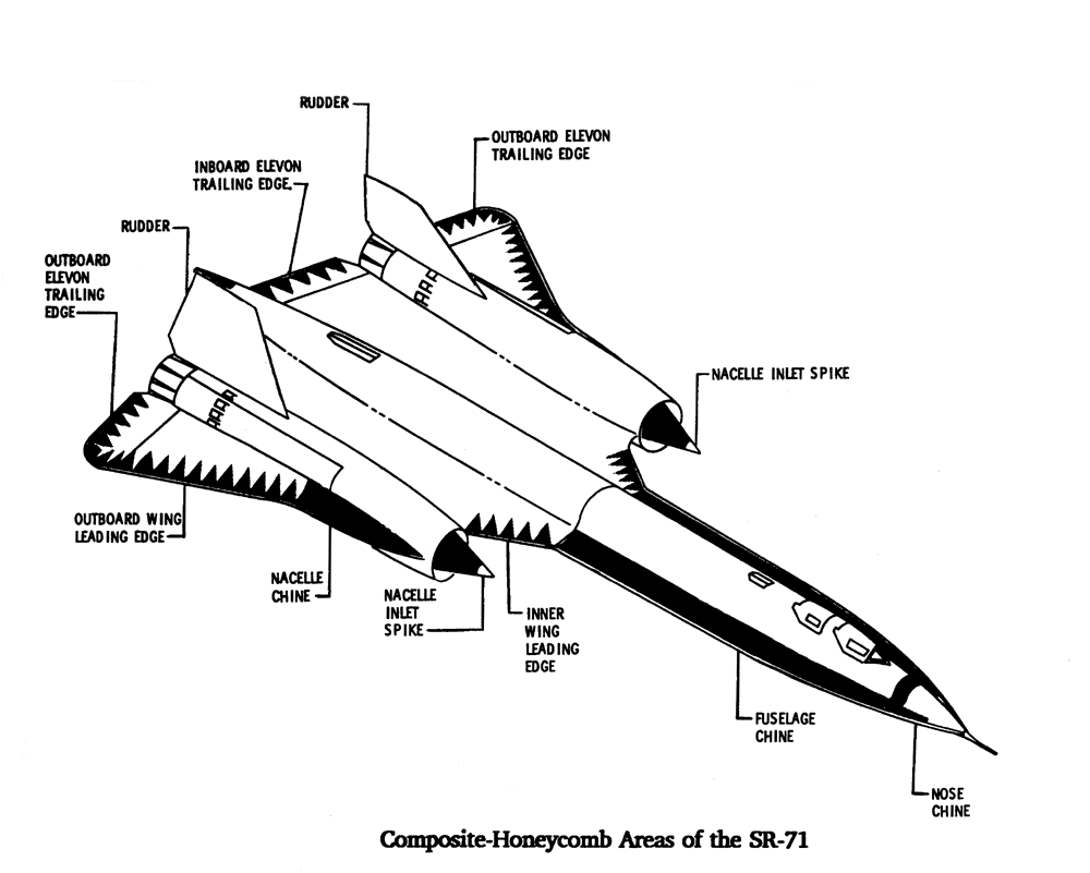 SR-71 Epoxy Asbestos Composit Areas